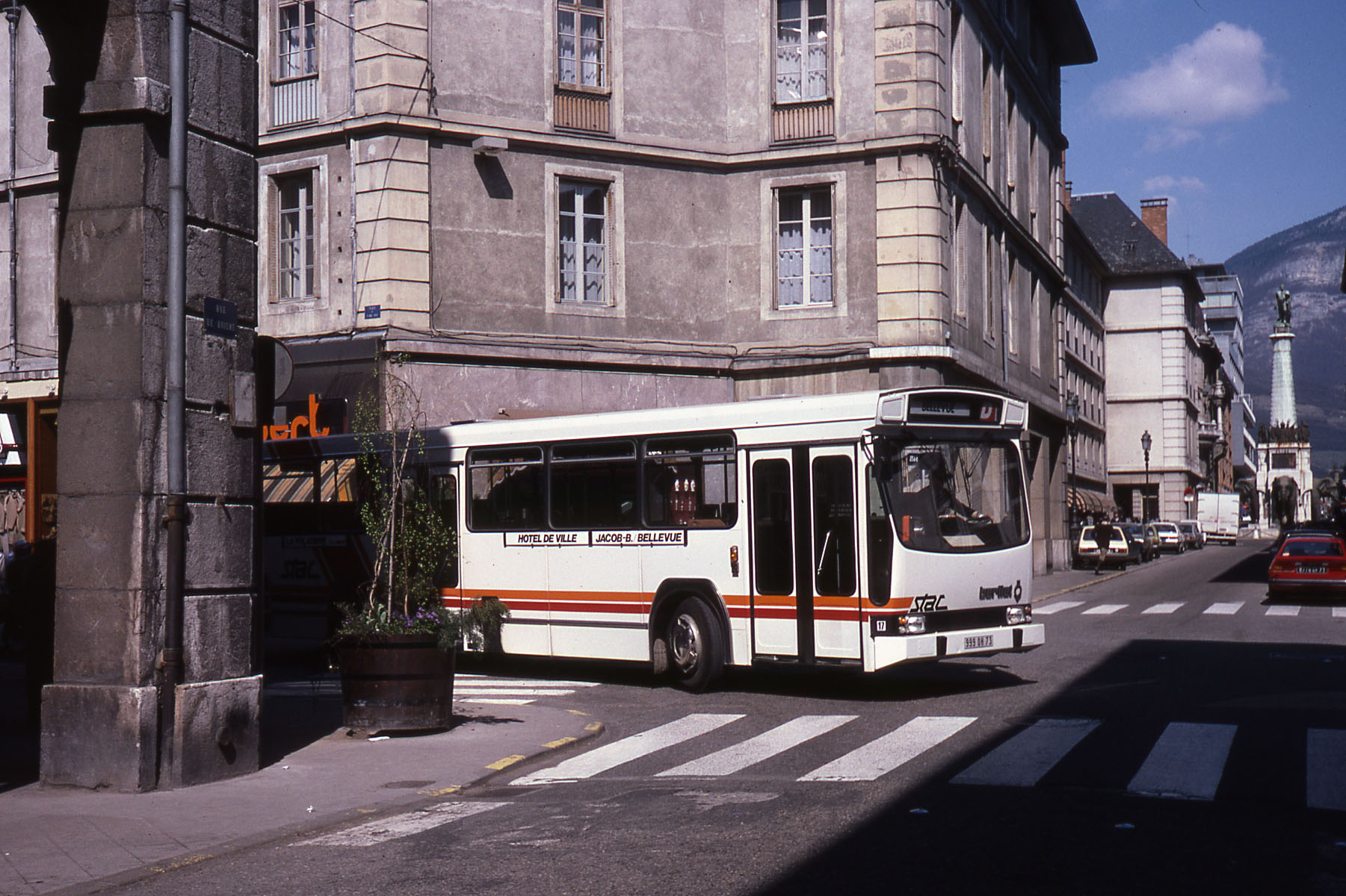 The bus Berliet PR100 n°17 of the STAC, on the line D (Bellevue, Jacob-Bellecombette↔Hôtel de ville, Chambéry), in Chambéry on 1980.